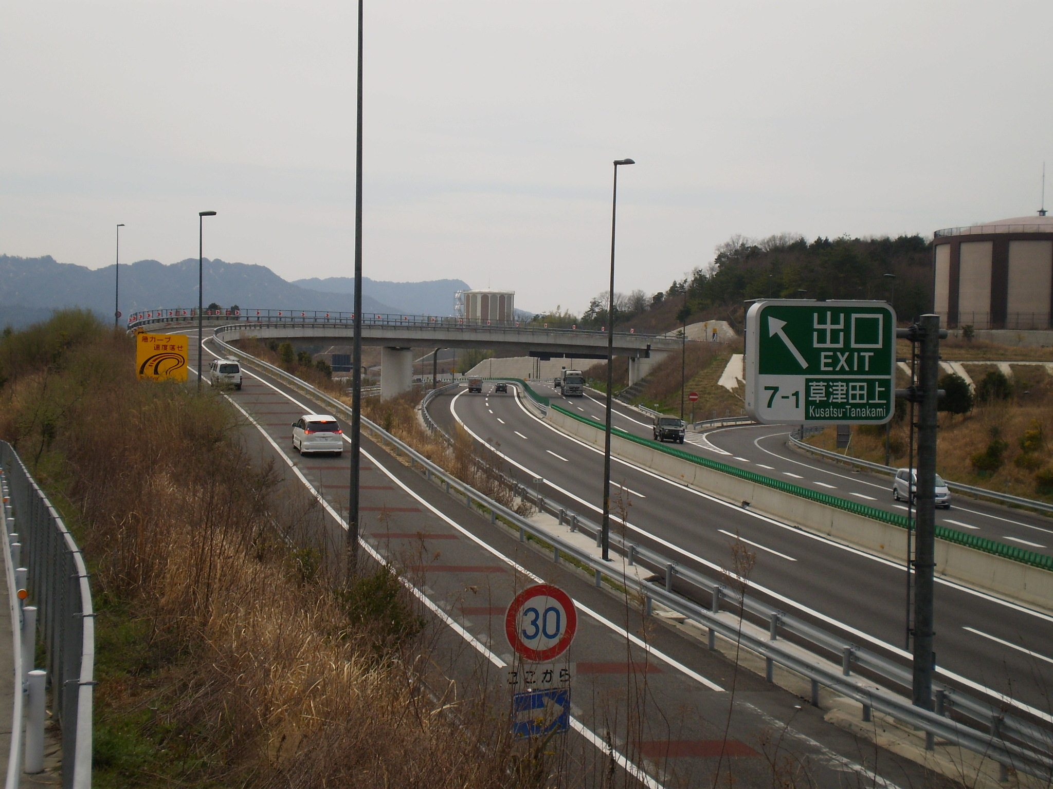 Kusatsu-tanakami B lamp bridge in Shin-Meishin Expressway. I took this image at Matsugaoka-6chome Otsu City Shiga Pref., Japan.